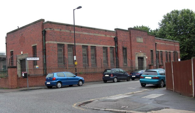 Earl Pumping Station The pumping station is in Chilton Grove but has been closed for years. It processed the water from Earl Sluice from the Thames.